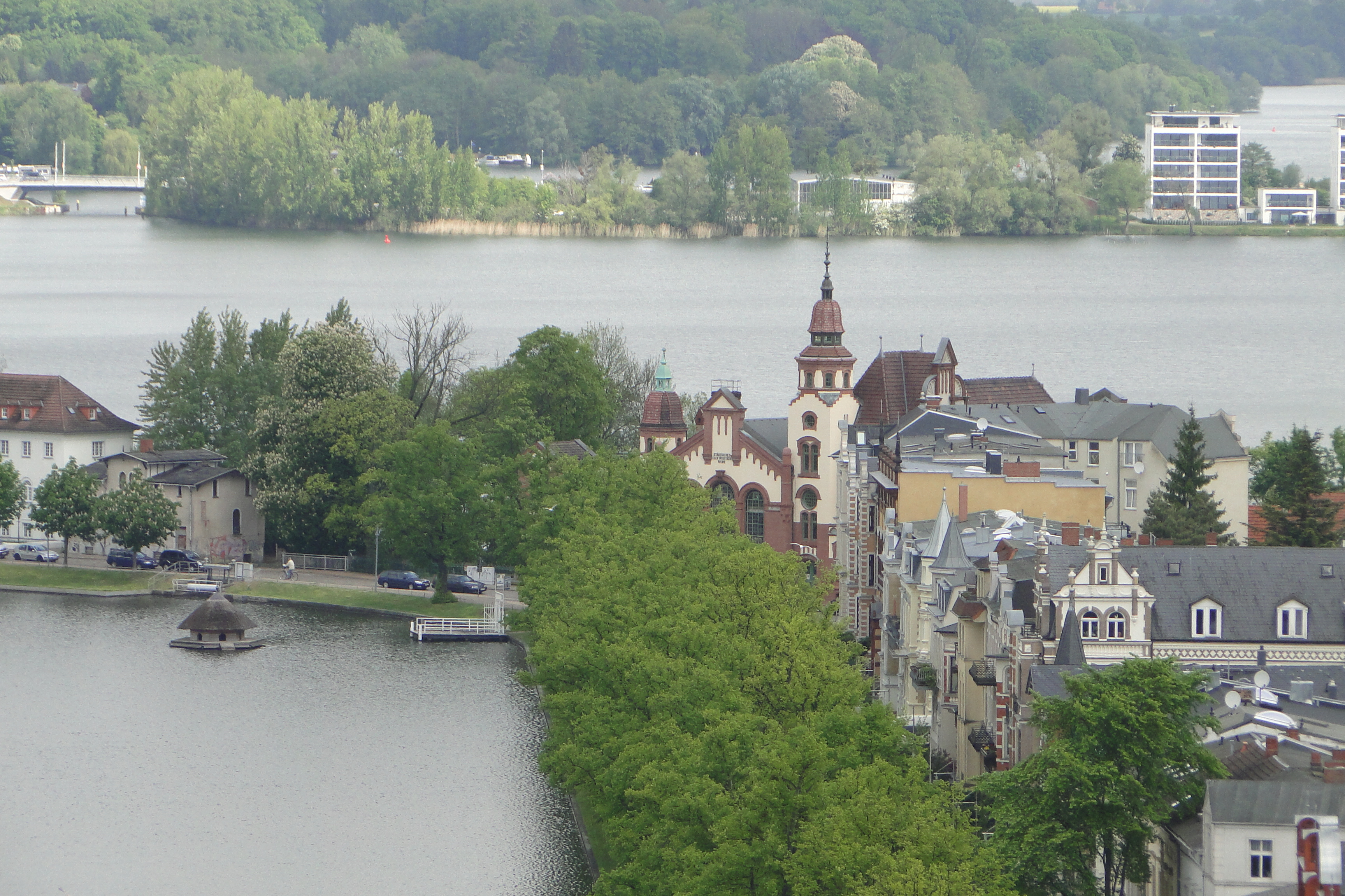 Pfaffenteich, Ziegelinnensee and power plant in Schwerin, Mecklenburg-Vorpommern, Germany